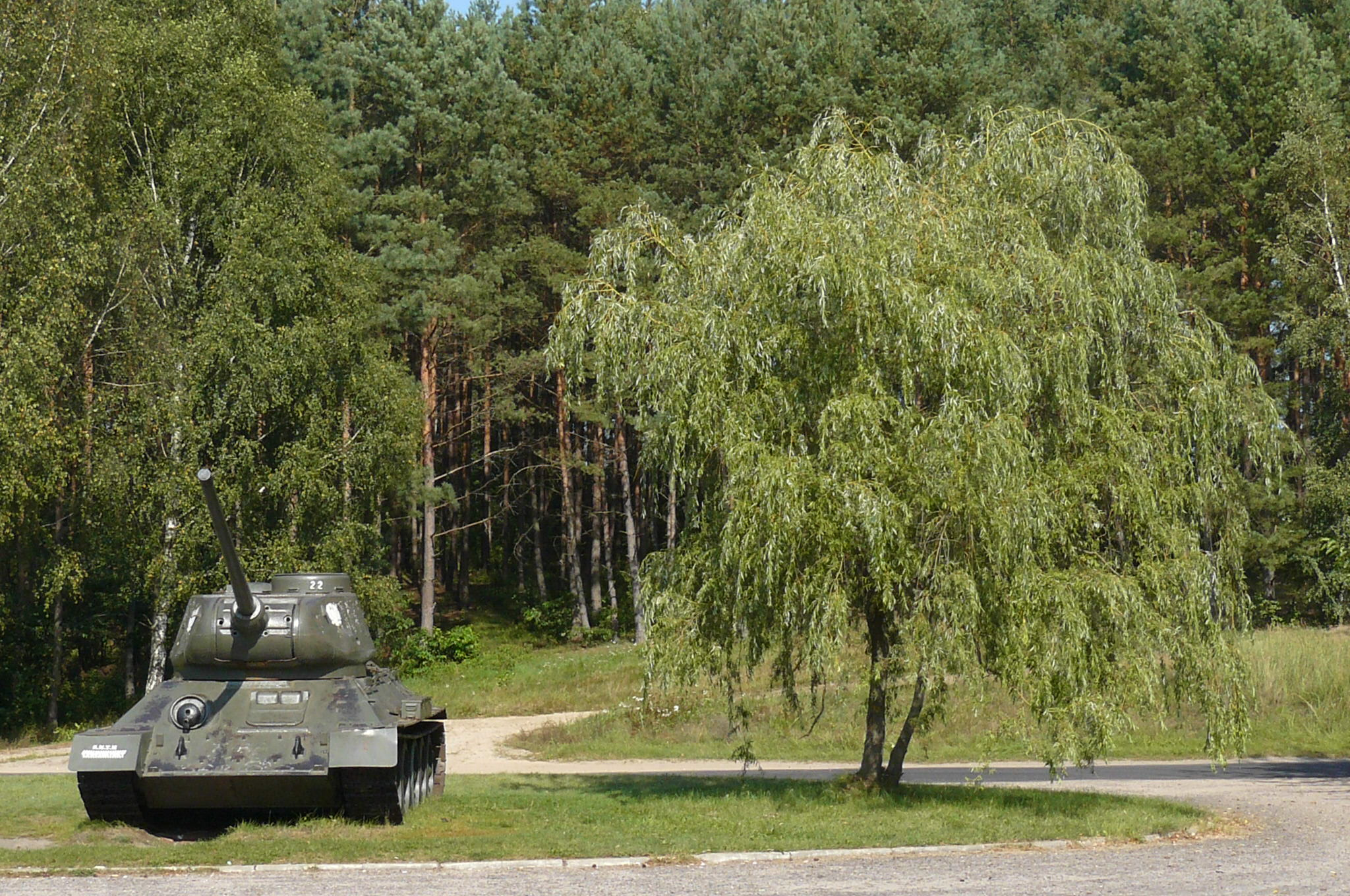 Remains of the open-air museum (WW2) - Zdbice.